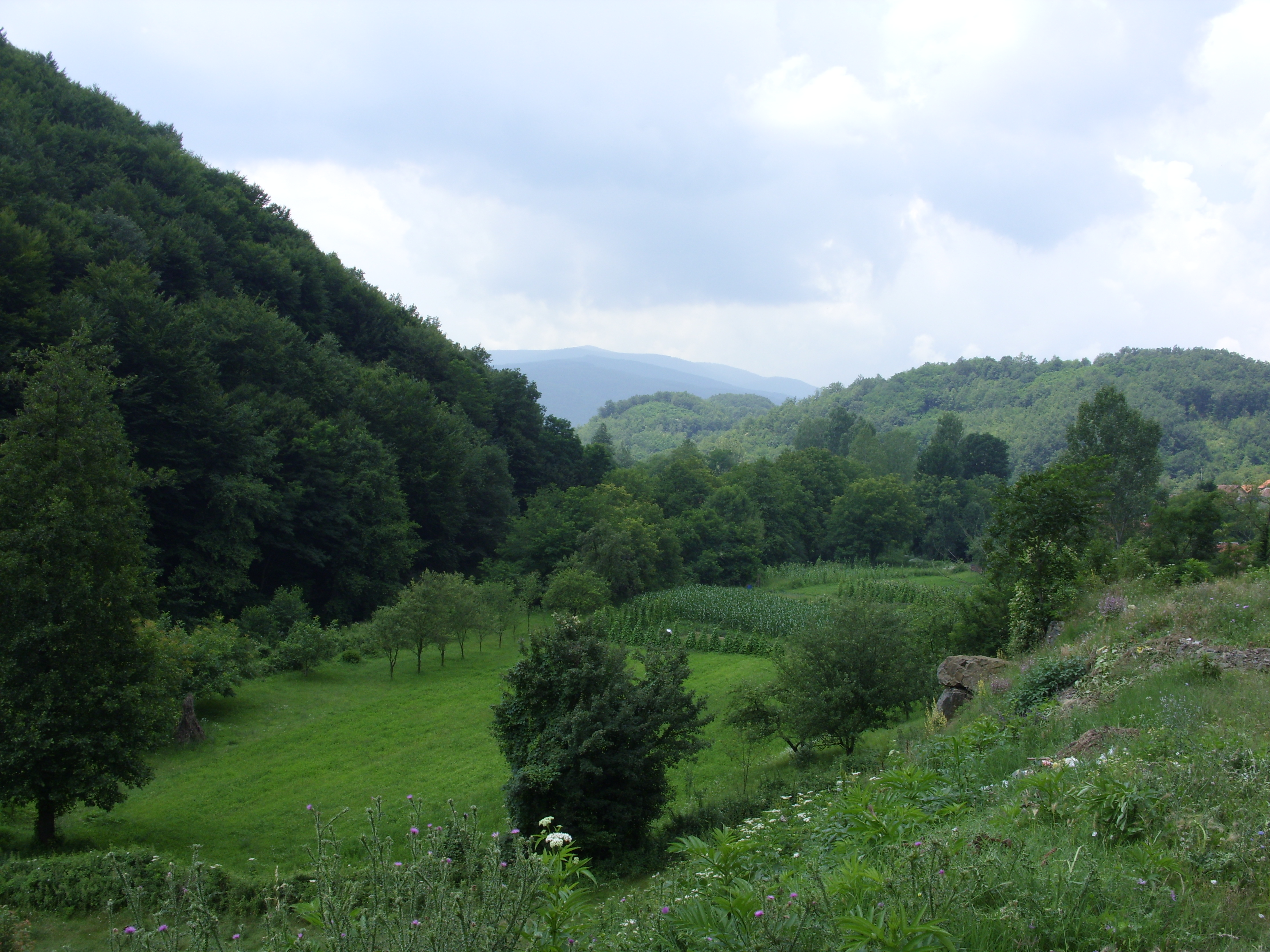 village of Kulina, Aleksinac Municipality, Serbia